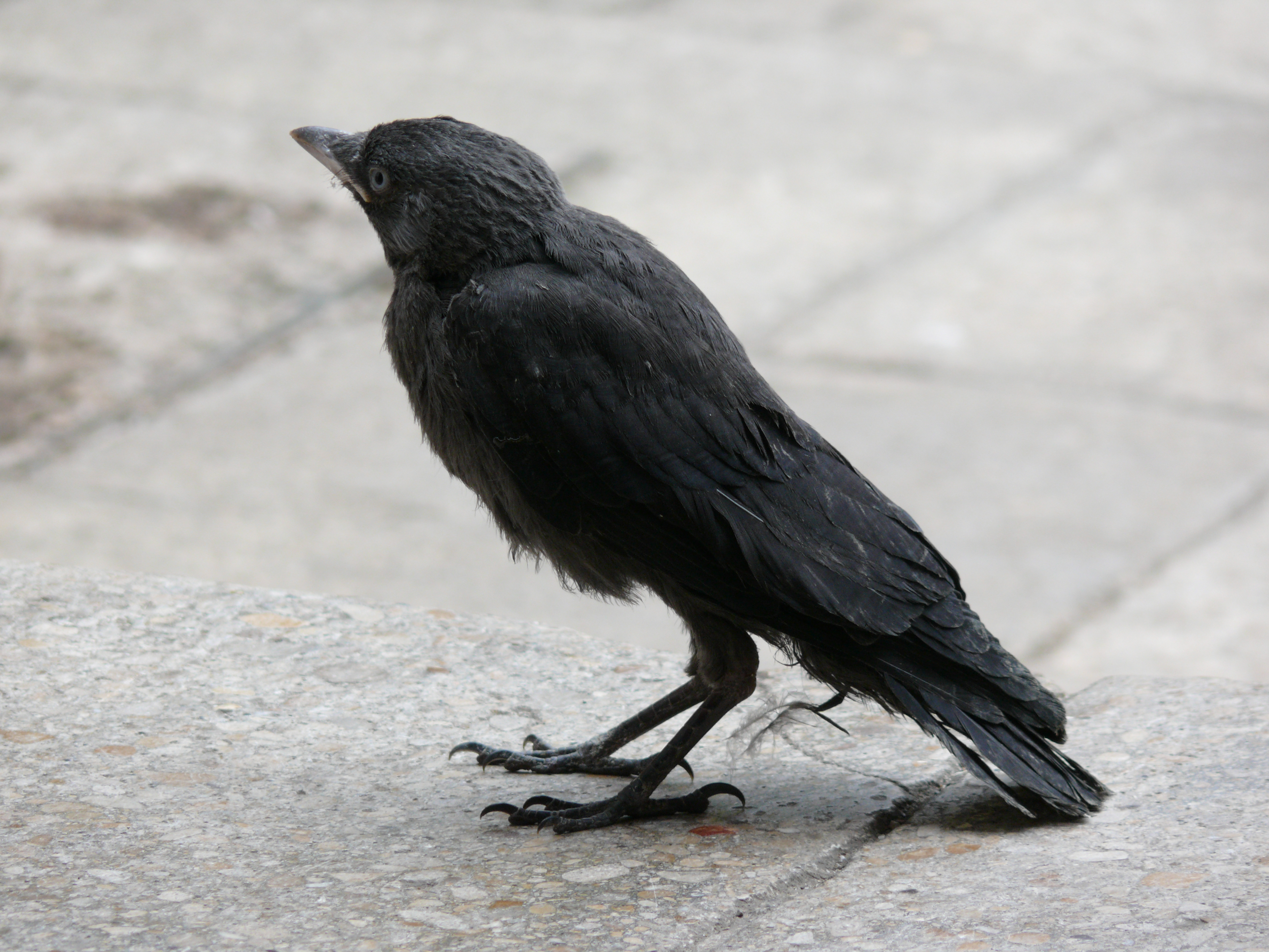 A fledgling Corvus monedula (jackdaw) on a stone step. Oxfordshire, UK.